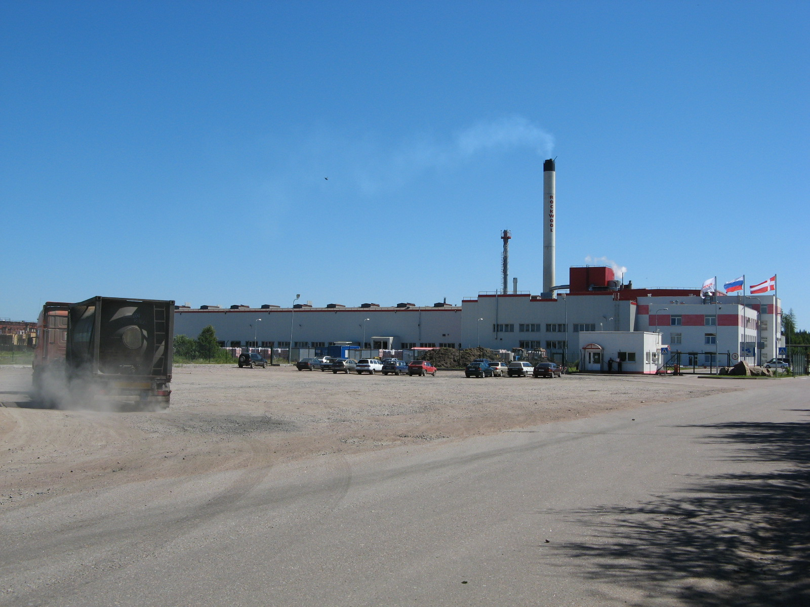 «Rockwool-north» plant in Lazarevka pay zone, Vyborg, Russia.